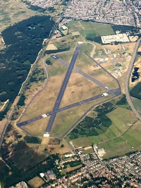 Aerial depiction of RAF Woodvale